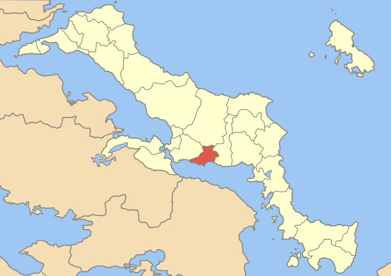 Locator map of Eretria municipality (Δήμος Ερέτριας) in Euboea prefecture (Νομός Εύβοιας) in Greece.